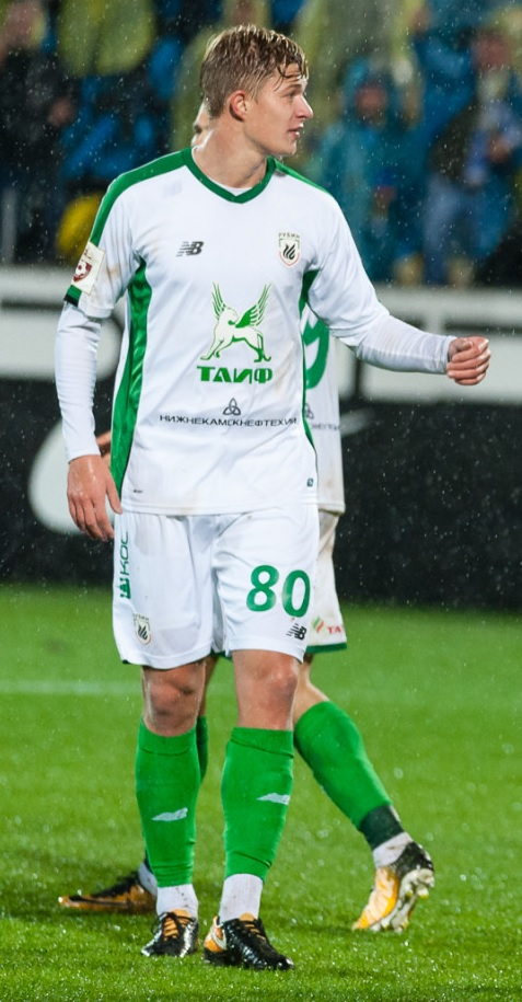 Yegor Sorokin with FC Rubin Kazan in a game against FC Rostov.